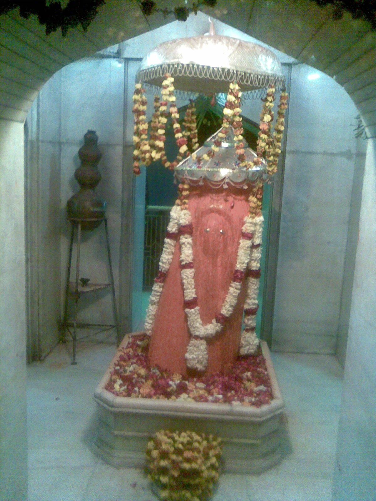 On the day of Jagran February, Chomukha Bhairavji